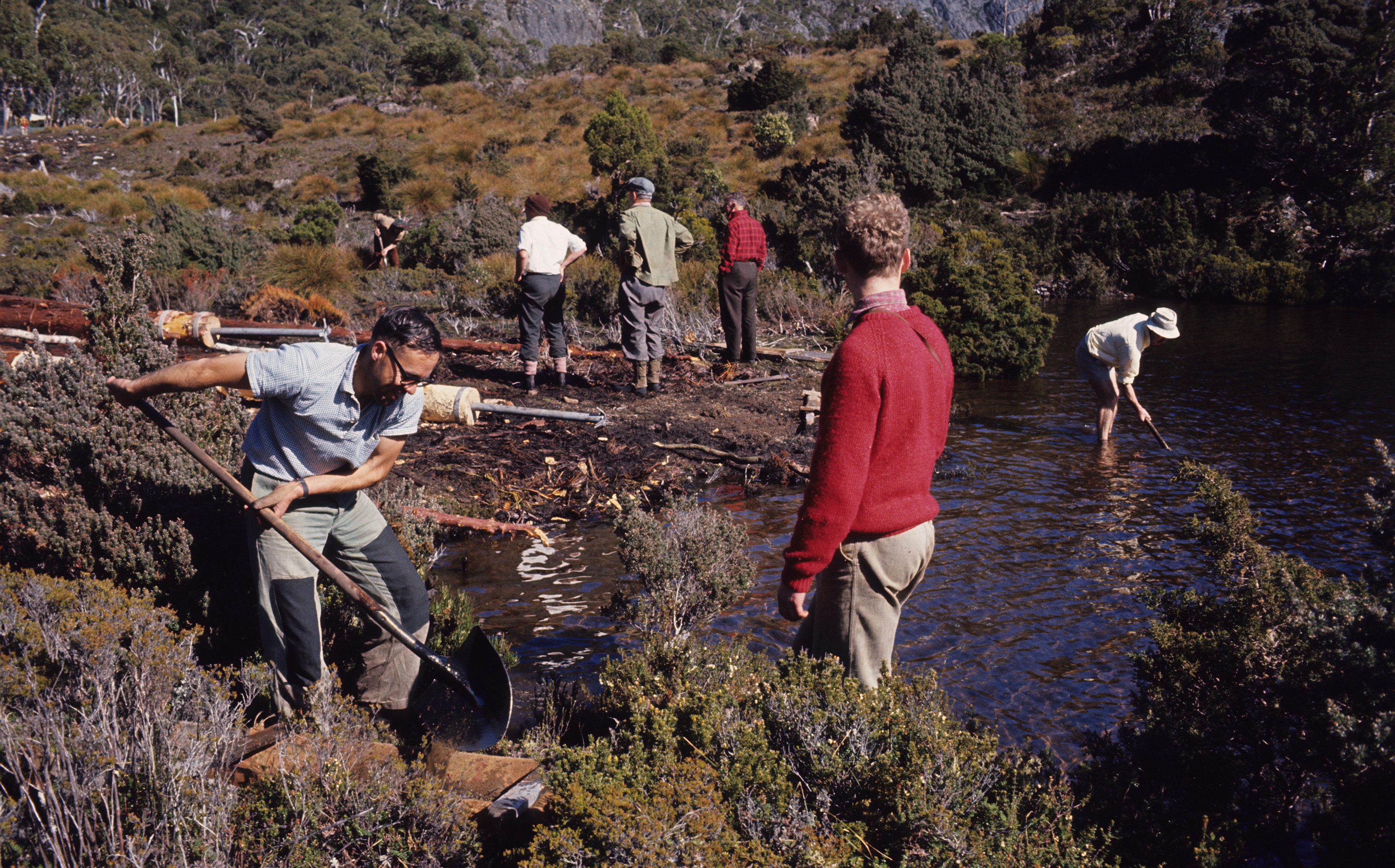 North West Walking Club members, digging for gravel, working bee at Scott-Kilvert Hut, Lake Rodway, November 1965. From left: Peter Piper (background), David Duff with shovel, ?, Les Hope, ?, ?, Malcolm Grant in lake.